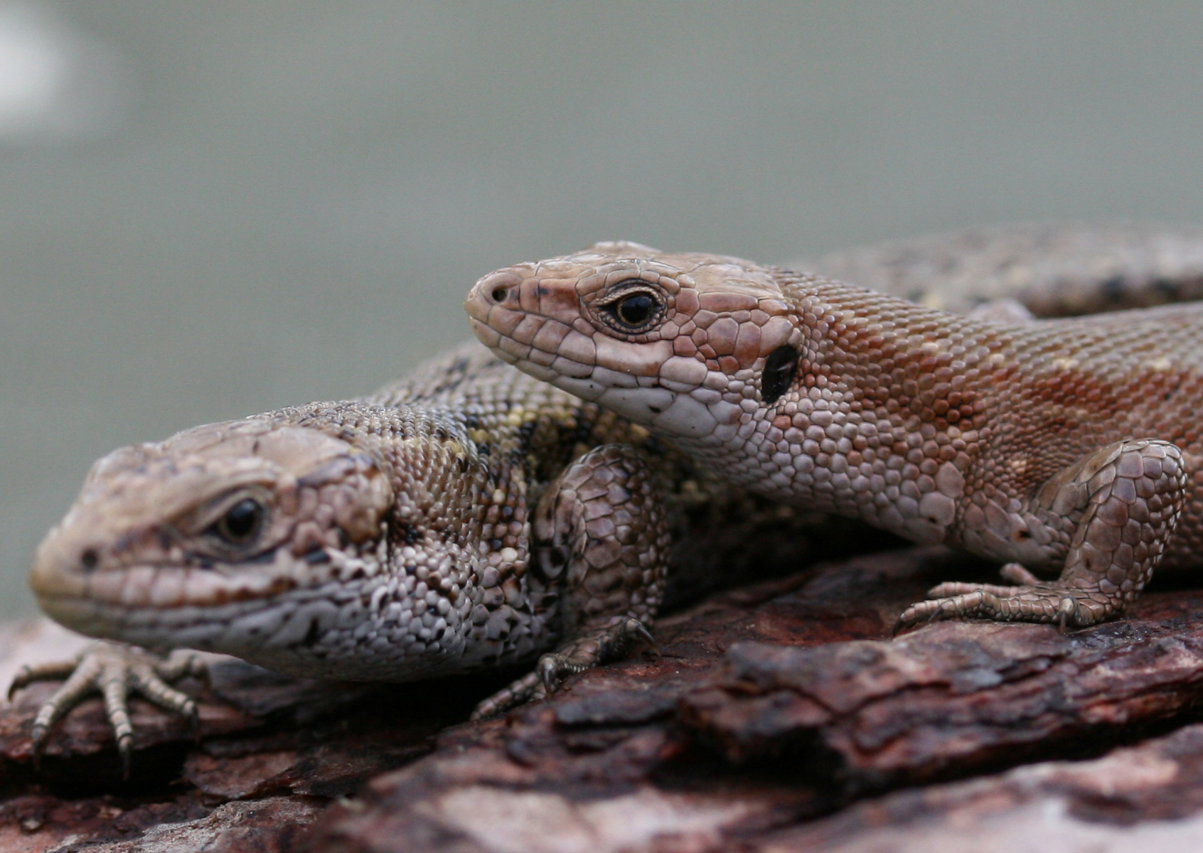 Zootoca vivipara, close up